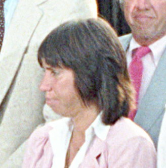 9/14/1981 President Reagan and Nancy Reagan during a reception for the American Davis Cup and Wightman Cup Teams at the White House Tennis Court with John McEnroe Tracy Austin Arthur Ashe Stan Smith Andrea Jaeger Marty Riessen Rosie Casals Peter Fleming and Bud Collins